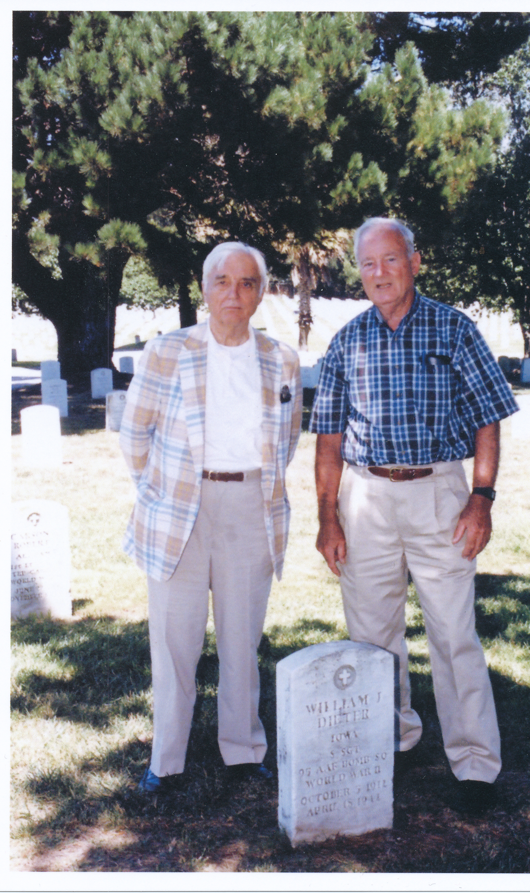 F. William McCalpin (USMC, WWII, Korea) (left) and George A. McCalpin (US Army, WWII) (right), cousins of William John "Billy Jack" Dieter, at Dieter's tombstone in Golden Gate National Cemetery.